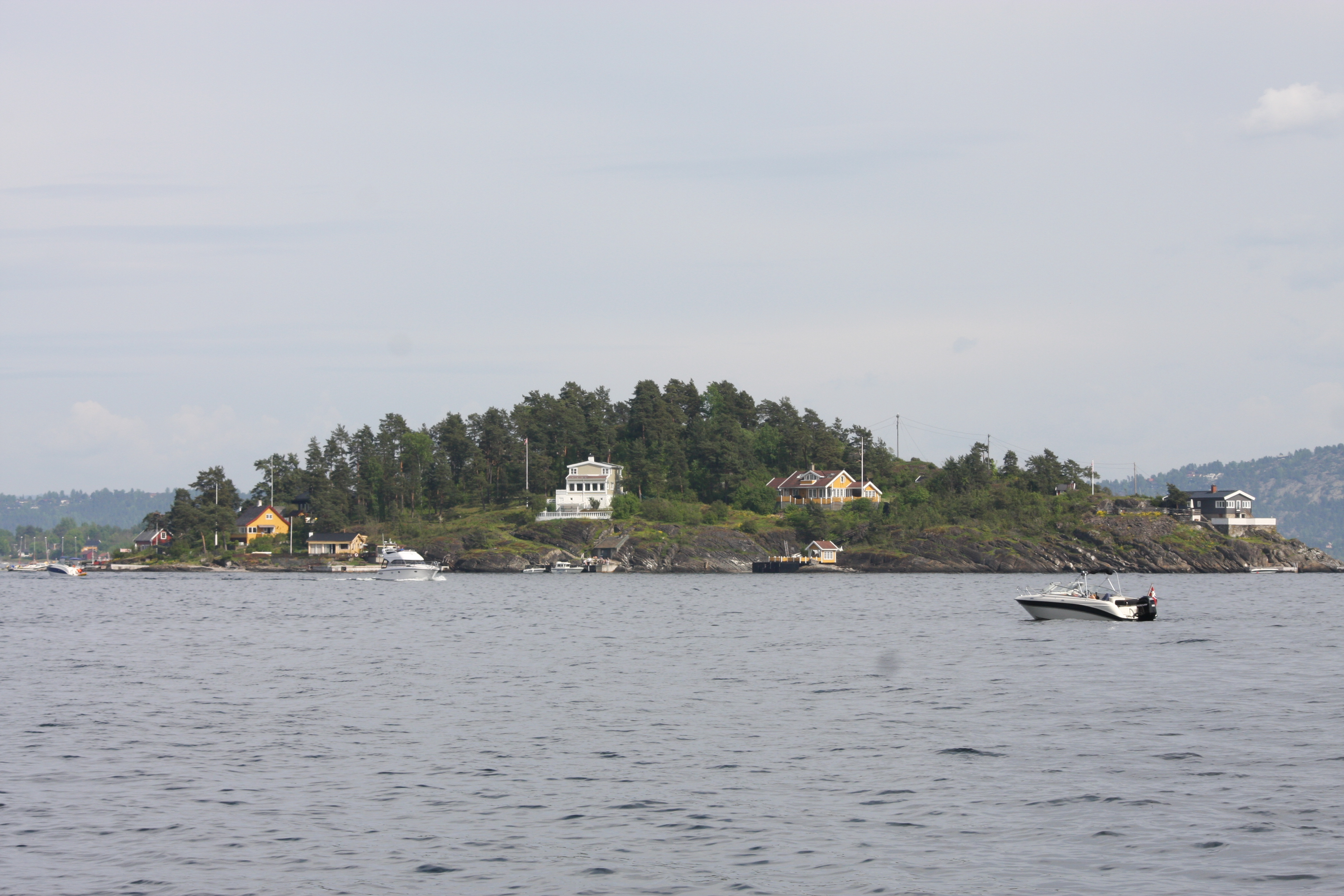 Höyerholmen, an island in the Asker archipelago, Akershus, Norway. Inner Oslo Fiord.